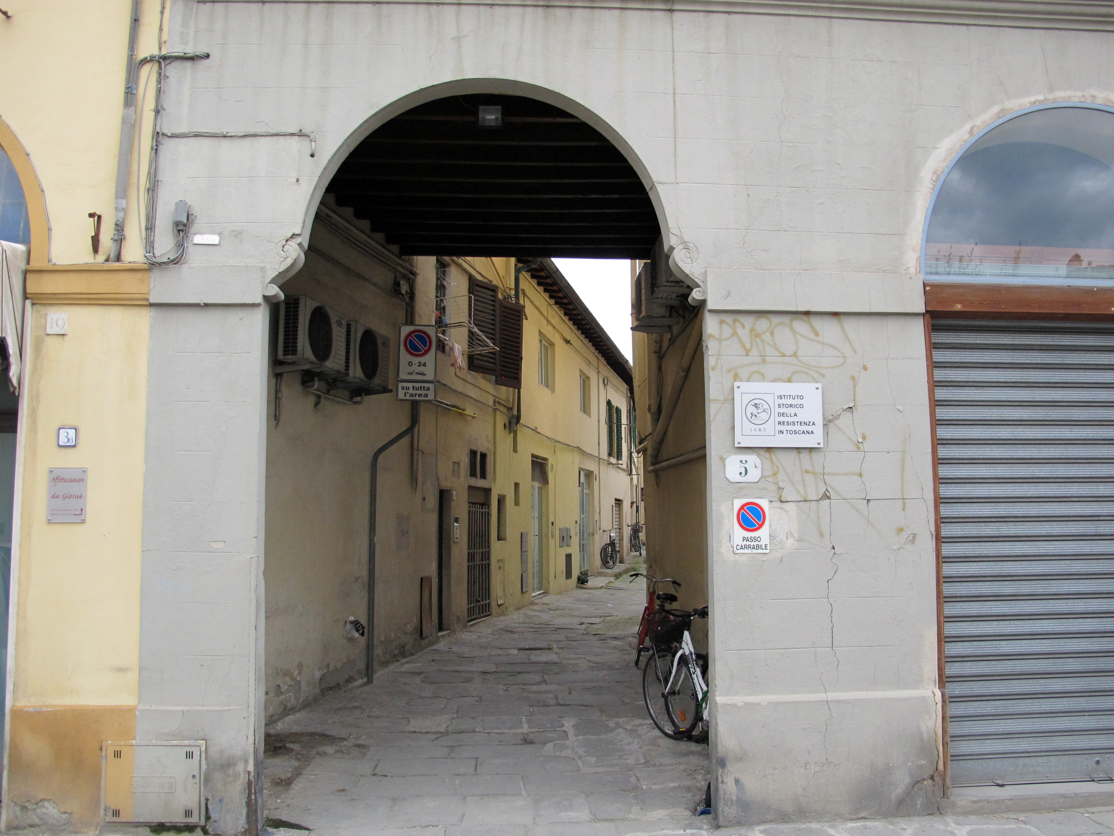 Via Carducci 5, headquarters of the Historic Institute of Resistance in Toscana.